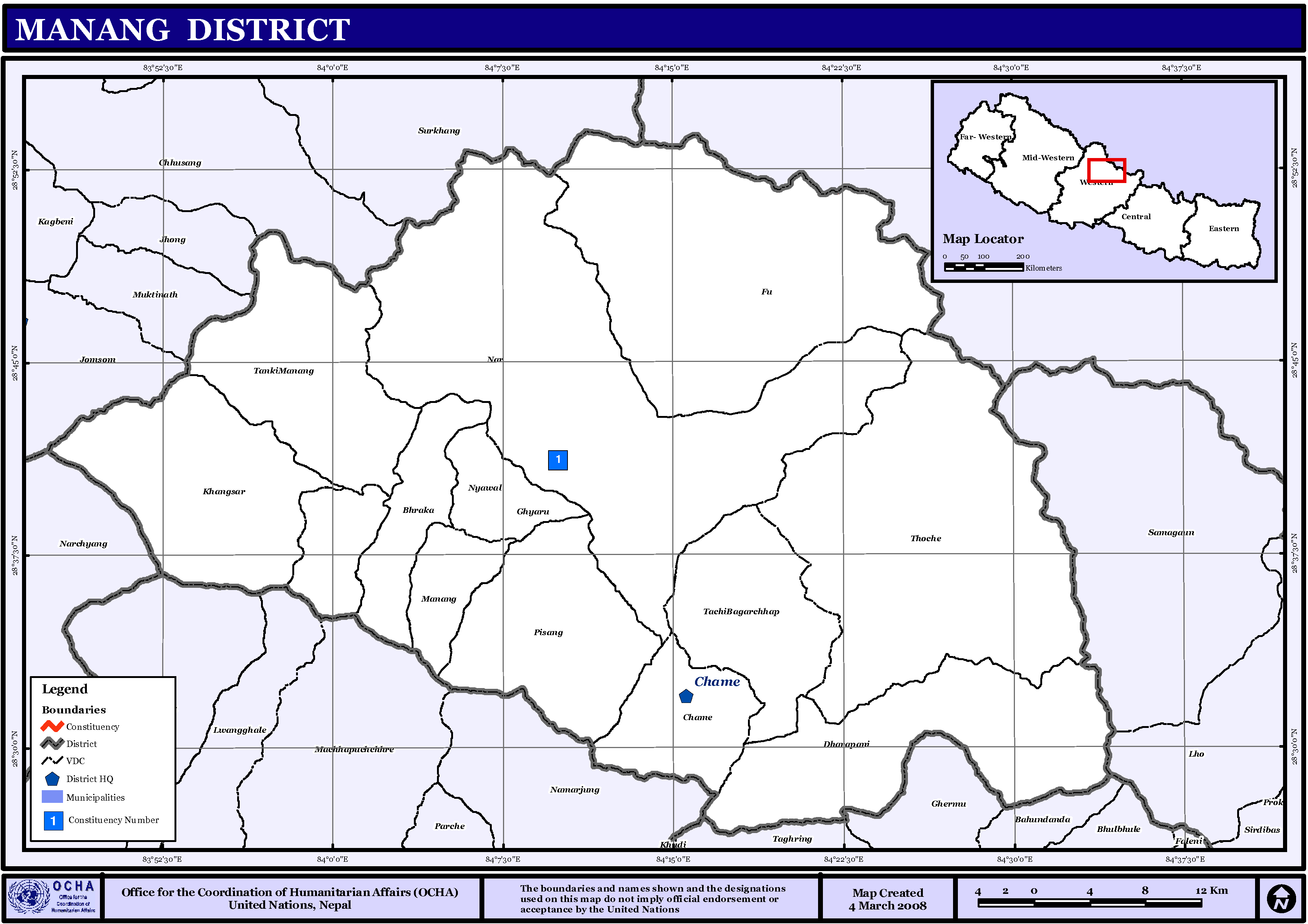 Map displaying Village Development Committees in Manang District, Nepal